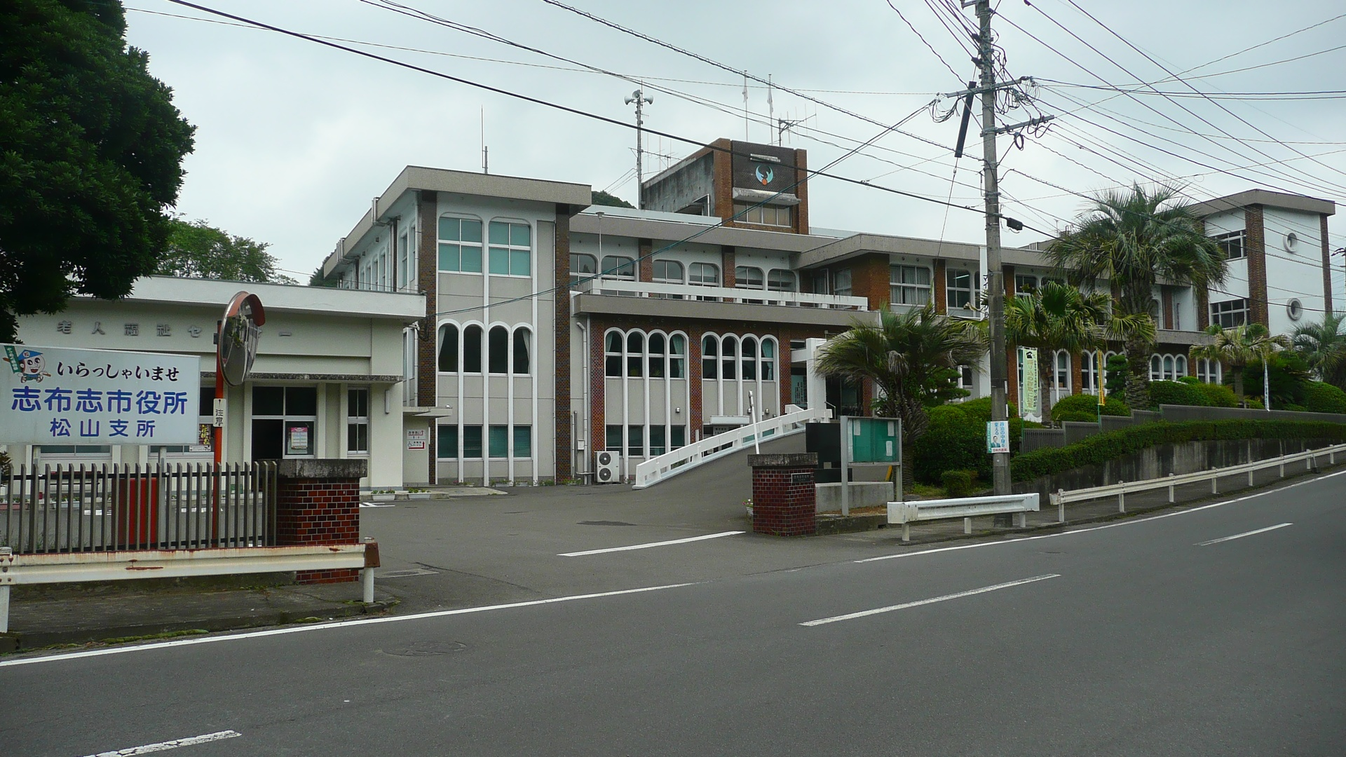 Shibushi City Office Matsuyama Branch (Former Matsuyama Town Office - Kagoshima Prefecture, Japan)